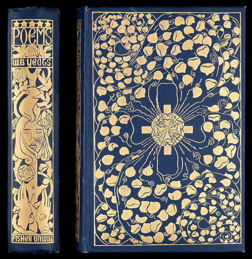 File name: ILS-1652633Binder label: G 821.91 YEA 1912Title: PoemsDate issued: 1912Genre: Book coversNotes: (Author) W.B. YeatsCollection: Victorian publishers' bookbindingsLocation: National Library NZ on The Commons collectionsRights: No known copyright restrictions.